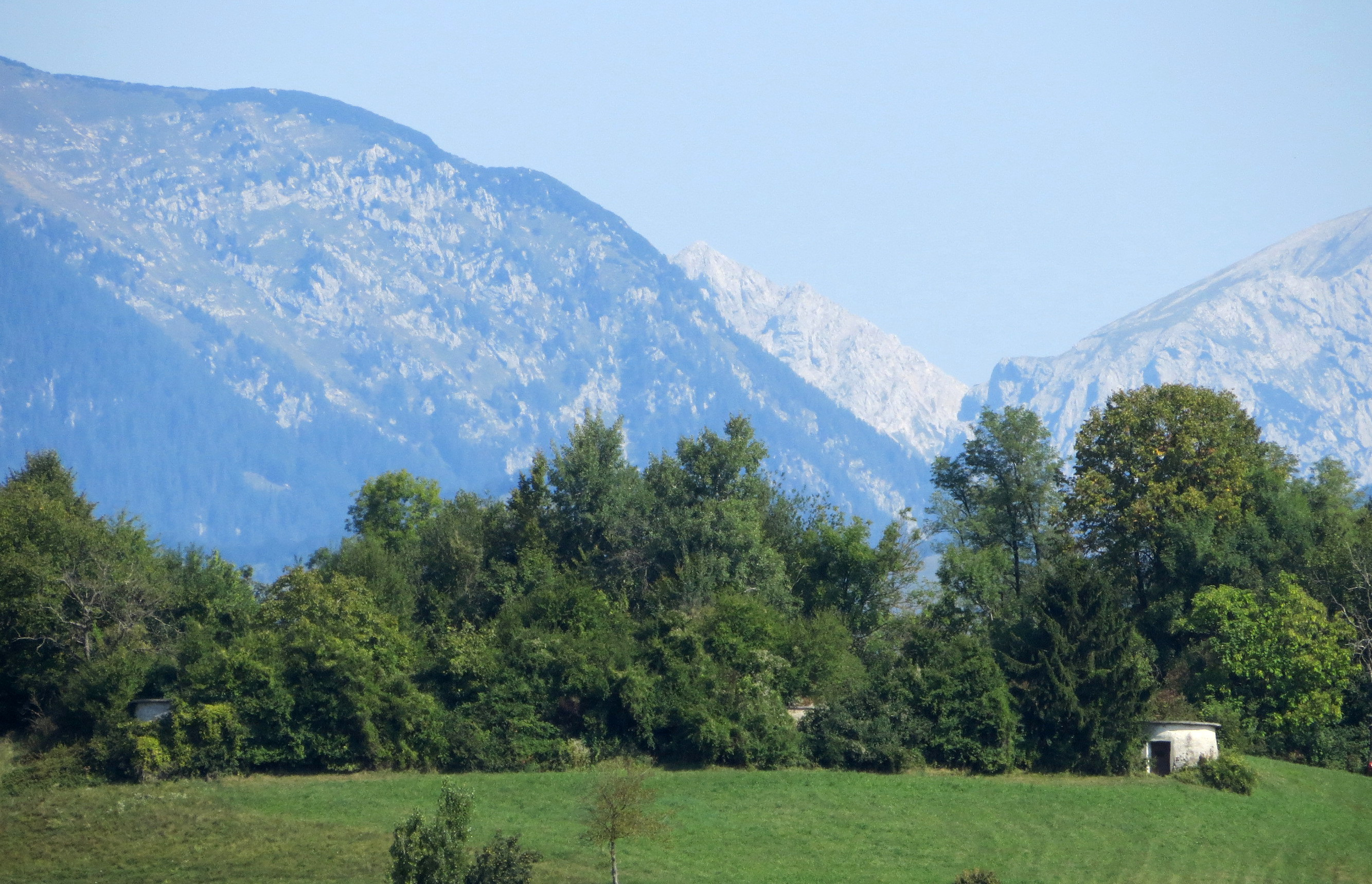 View from the south of the former site of Križ Castle (grad Križ, Schloß Kreuz) above Križ, Municipality of Komenda, Slovenia